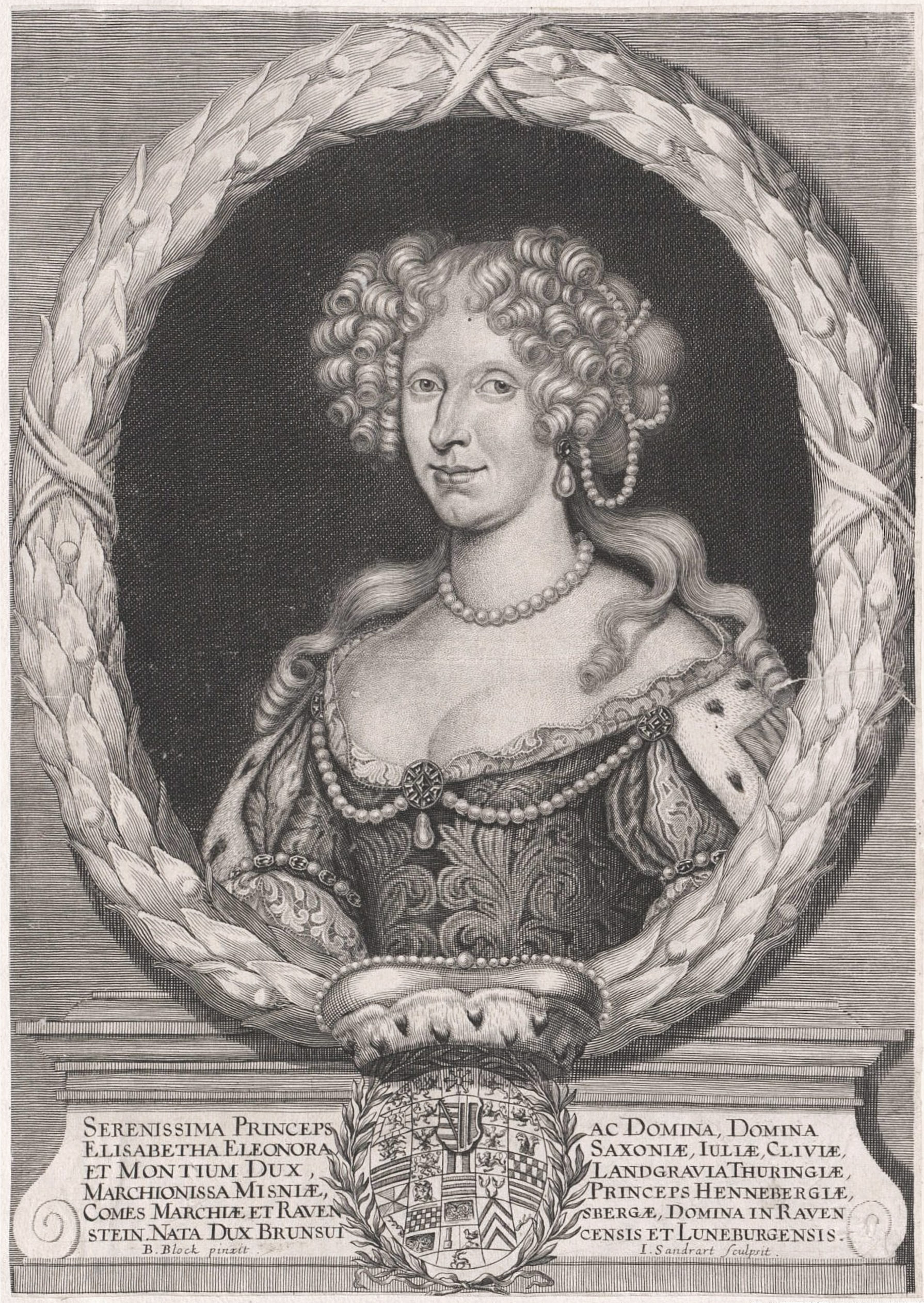 Portrait of Elisabeth Eleonore of Brunswick-Wolfenbüttel (1658-1729), Duchess of Saxe-Meiningen